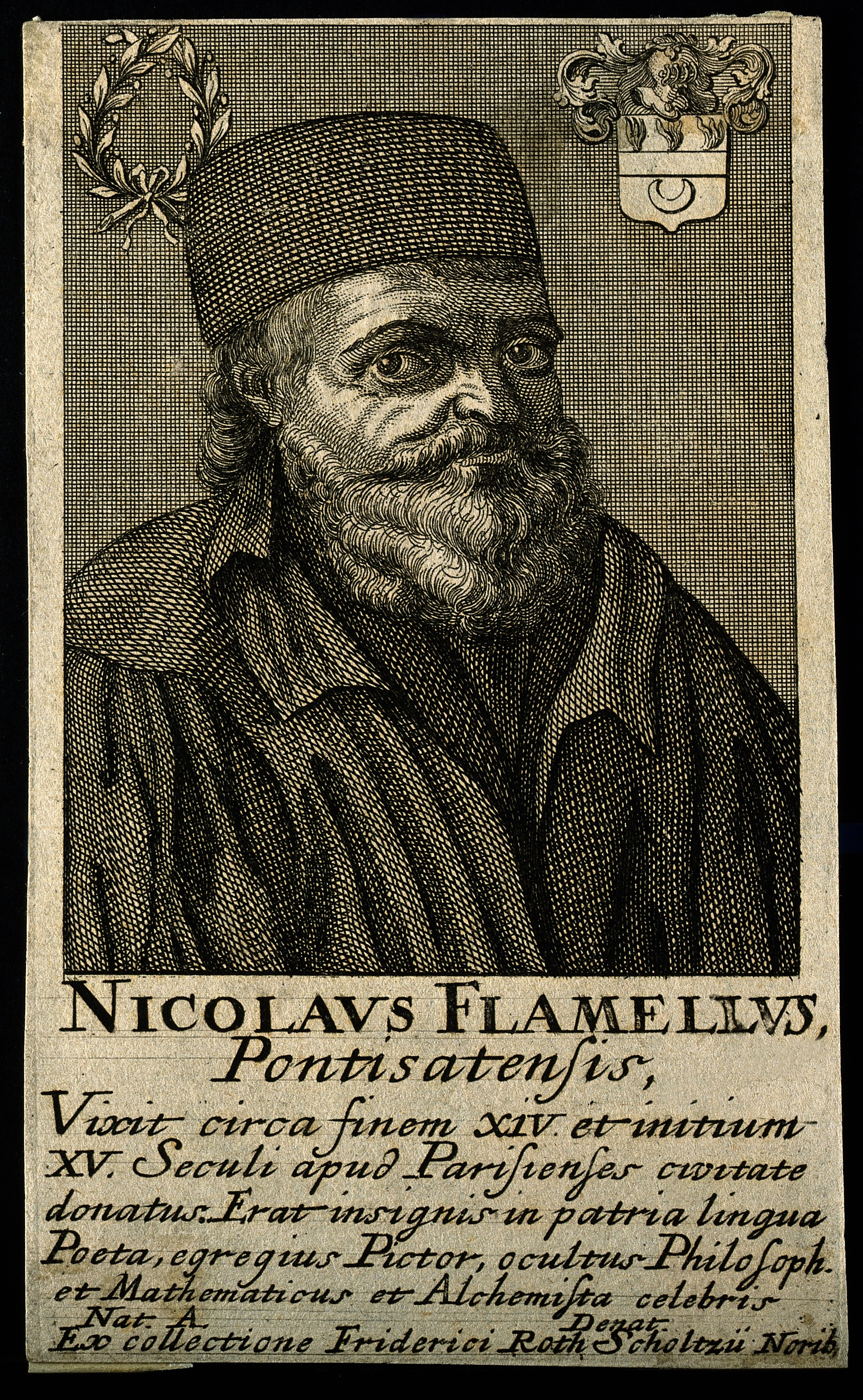 Nicolas Flamel. Line engraving. Iconographic Collections Keywords: portrait prints; Nicolas Flamel; engravings